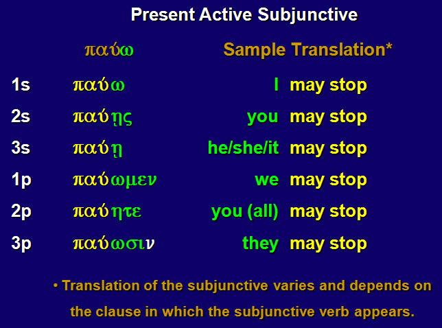 Greek: Present Active Subjunctive of pauo